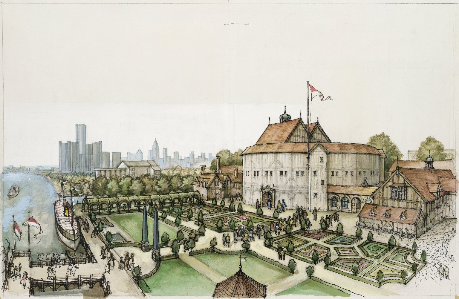 Watercolor drawing by C. Walter Hodges showing the planned (but never built) Globe Theater in Detroit, Michigan. Folger Shakespeare Library ART Box H688 no.9.1